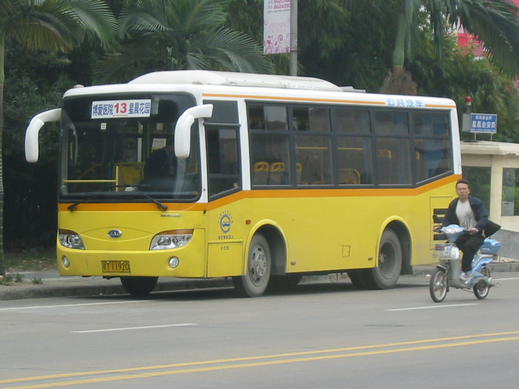 A Zhongshan bus running on route 13.